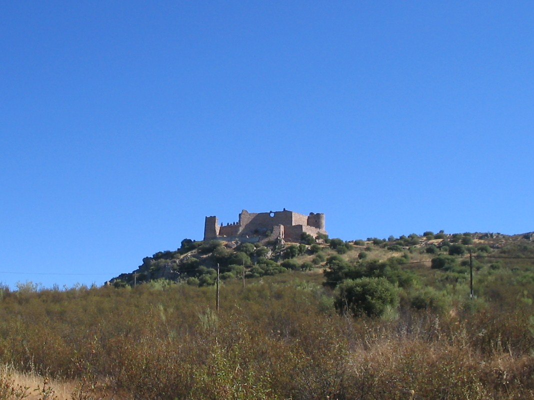 The Castle of Portezuelo (Cáceres, Extremadura, Spain)